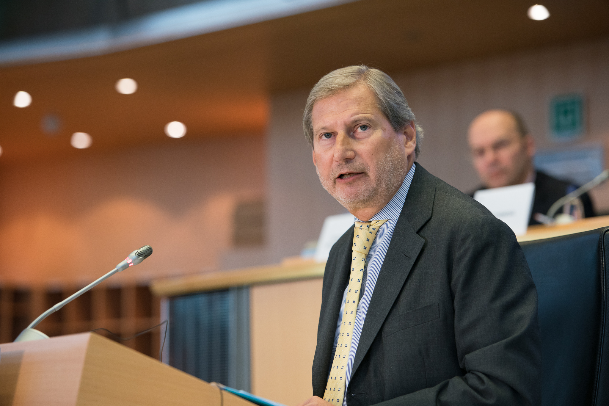 Before the European Parliament can vote the new European Commission led by Ursula von der Leyen into office, parliamentary committees will assess the suitability of commissioners-designate. On 23-26 May, more than 200,000,000 people in 28 EU countries went to the polls to elect members of the European Parliament, giving them a strong democratic mandate, including voting into office the new European Commission and examining the competencies and abilities of its commissioners-designate. Elected members of the European Parliament will also listen to their ideas and will assess their willingness to take concrete actions on the issues that Europeans care about. Each candidate commissioner is invited for a live-streamed, three-hour hearing in front of the committee or committees responsible for their proposed portfolio. The hearings will take place between Monday 30 September and Tuesday 8 October. This photo is free to use under Creative Commons license CC-BY-4.0 and must be credited: "CC-BY-4.0: © European Union 2019 – Source: EP". No model release form if applicable. For bigger HR files please contact: webcom-flickr(AT)